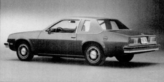 Pontiac Sunbird